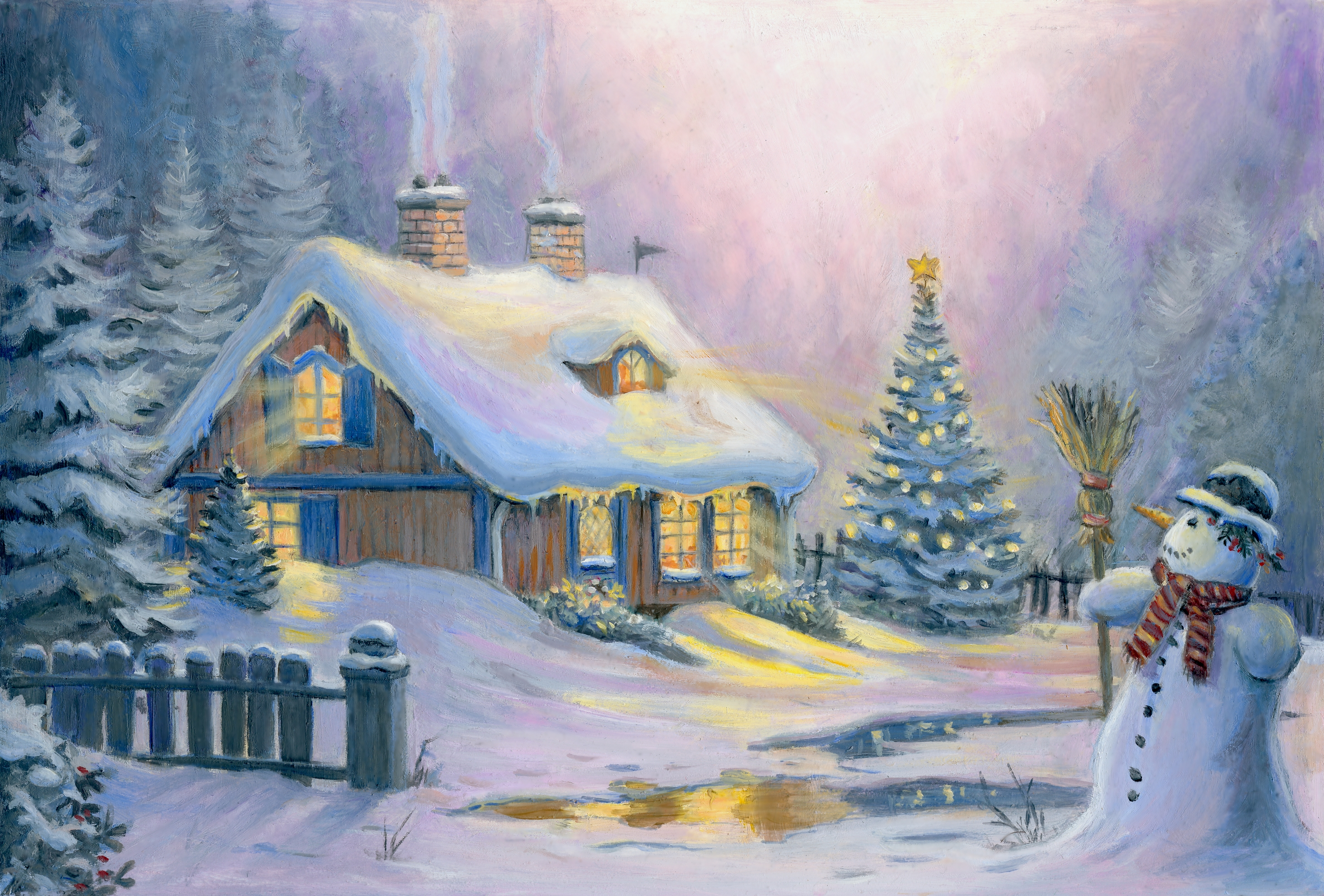 This image is one of 72 from a Swedish Christmas clip art CD, now released to the public domain by the artist AlphaZeta.